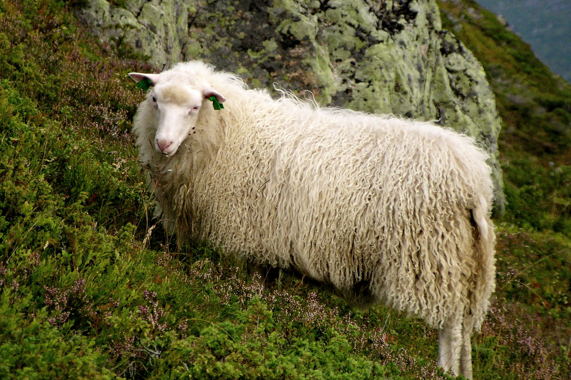 A Norwegian sheep - most likely of the native Spælsau breed.